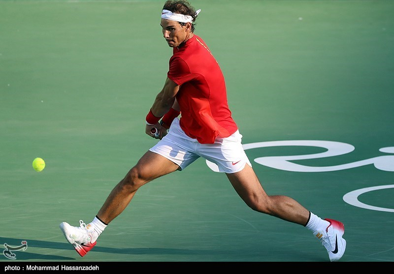 Tennis at the 2016 Summer Olympics – Men's singles. Rafael Nadal - Andreas Seppi